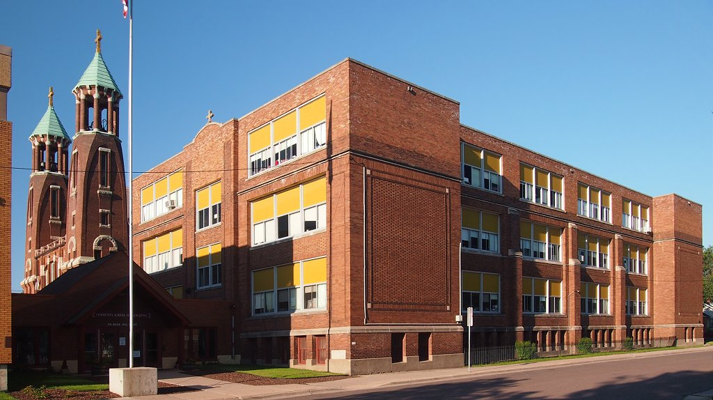 Part of the Community School of Excellence campus (formerly St Bernard's High School) with the Church of St Bernard in the background, 170 W Rose Ave, St Paul, Minnesota, USA. Viewed from the northeast.